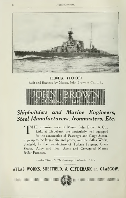 Advertisement for John Brown & Co., shipbuilders in Brassey's Naval Annual 1923, showing HMS Hood - built by John Brown.